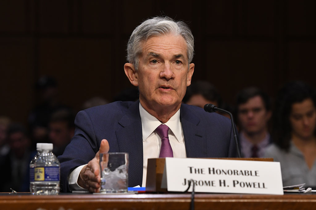 Chairman Powell presents the Monetary Policy Report to the Senate Committee on Banking, Housing, and Urban Affairs. Report here